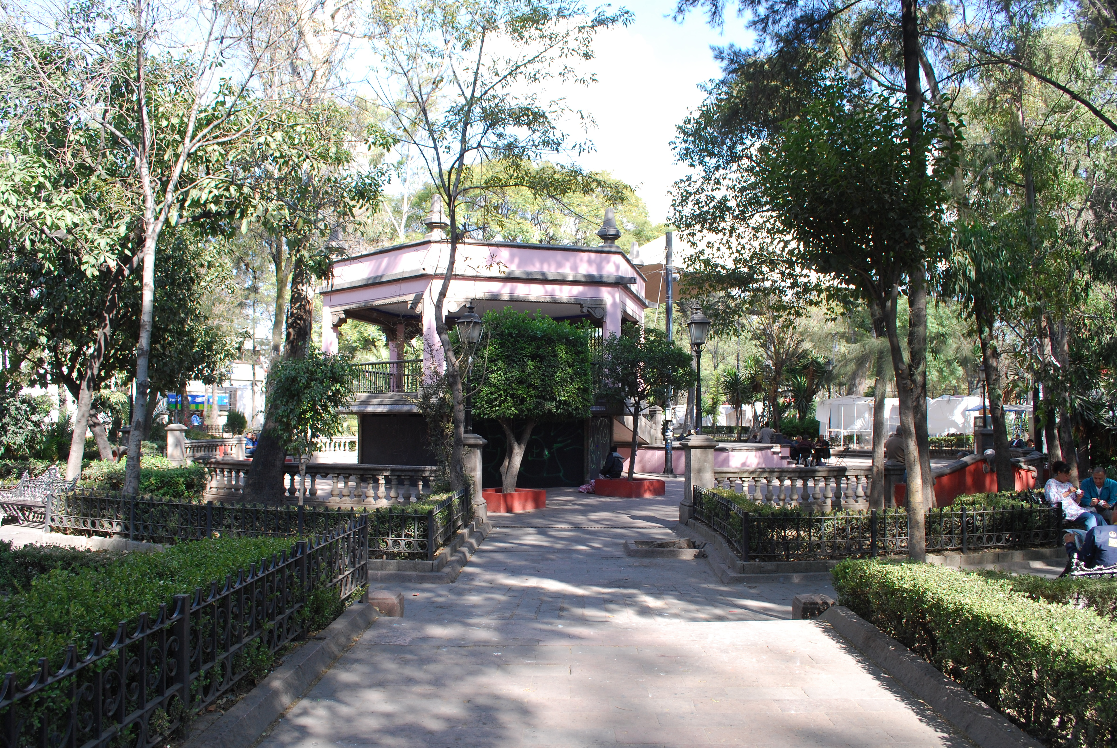 Plaza Hidalgo with kiosk in the historic center of Azcapotzalco, Mexico City